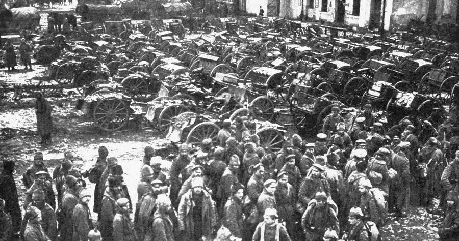 Russian prisoners and guns captured at Tannenberg